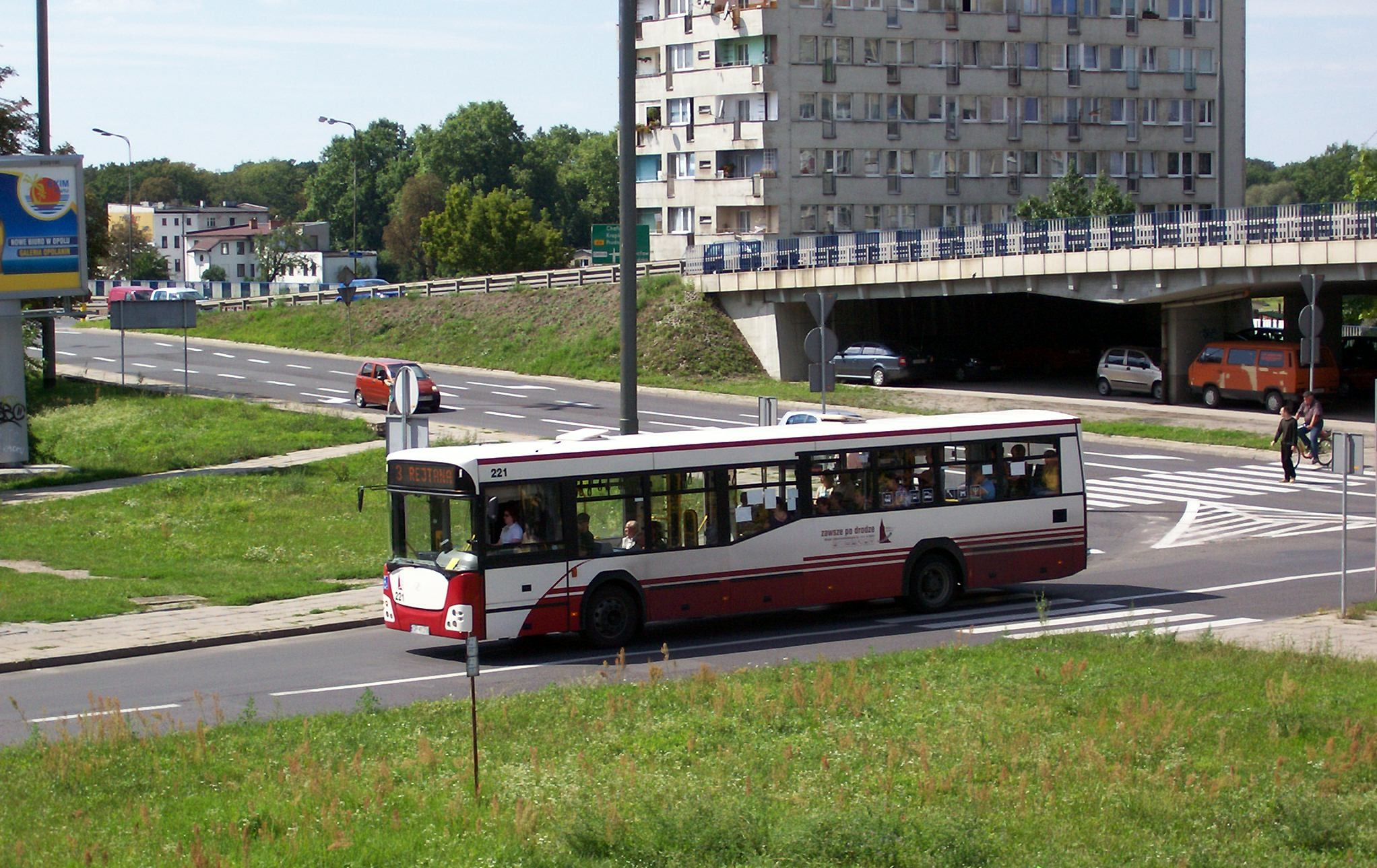 Jelcz M121I bus (#221) at Książąt Opolskich street in Opole, Poland. Built 2005, MZK Opole operator.